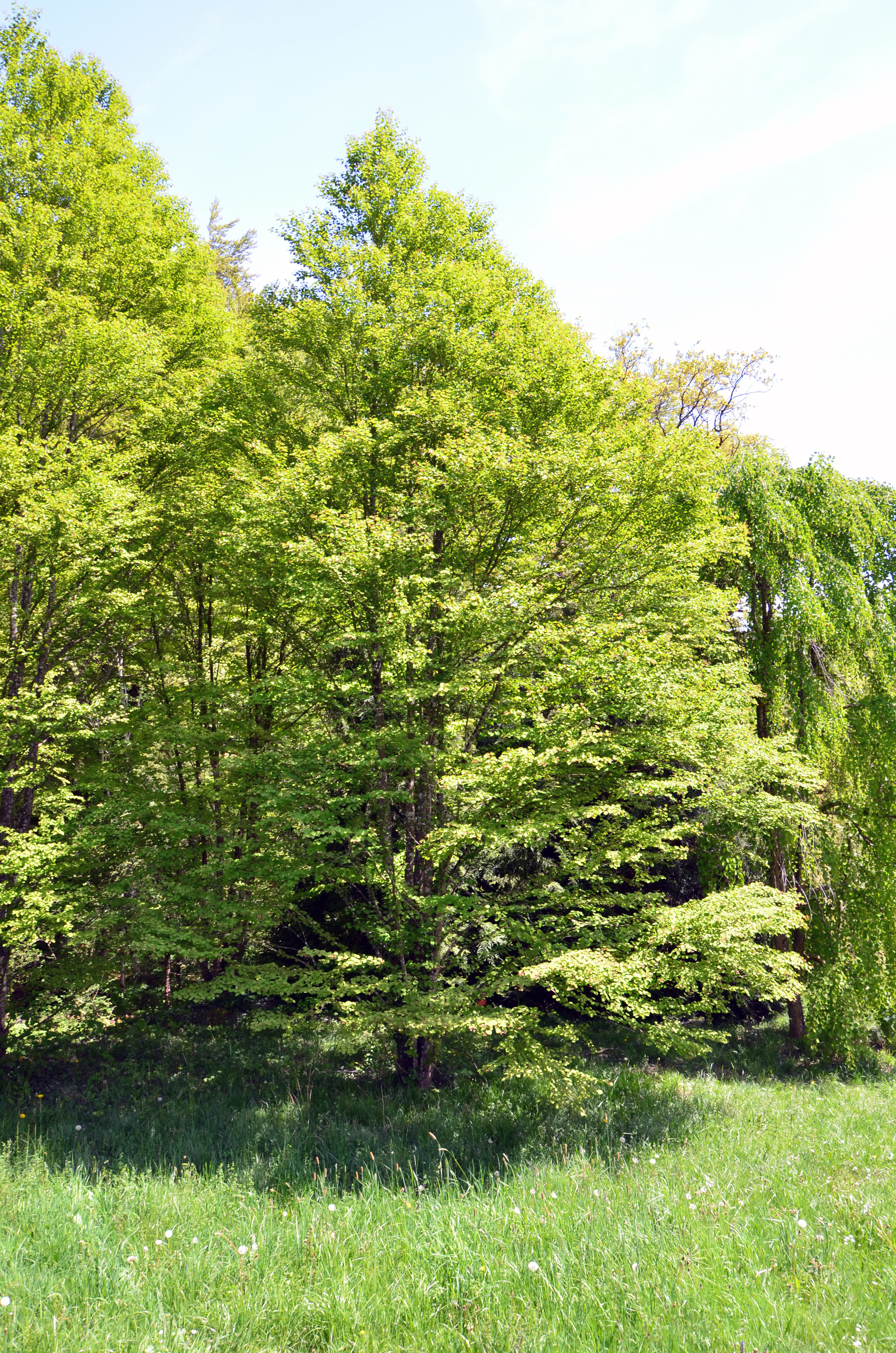 Katsura (cercidiphyllum japonicum) in the Aubonne's valley's national arboretum (Switzerland).